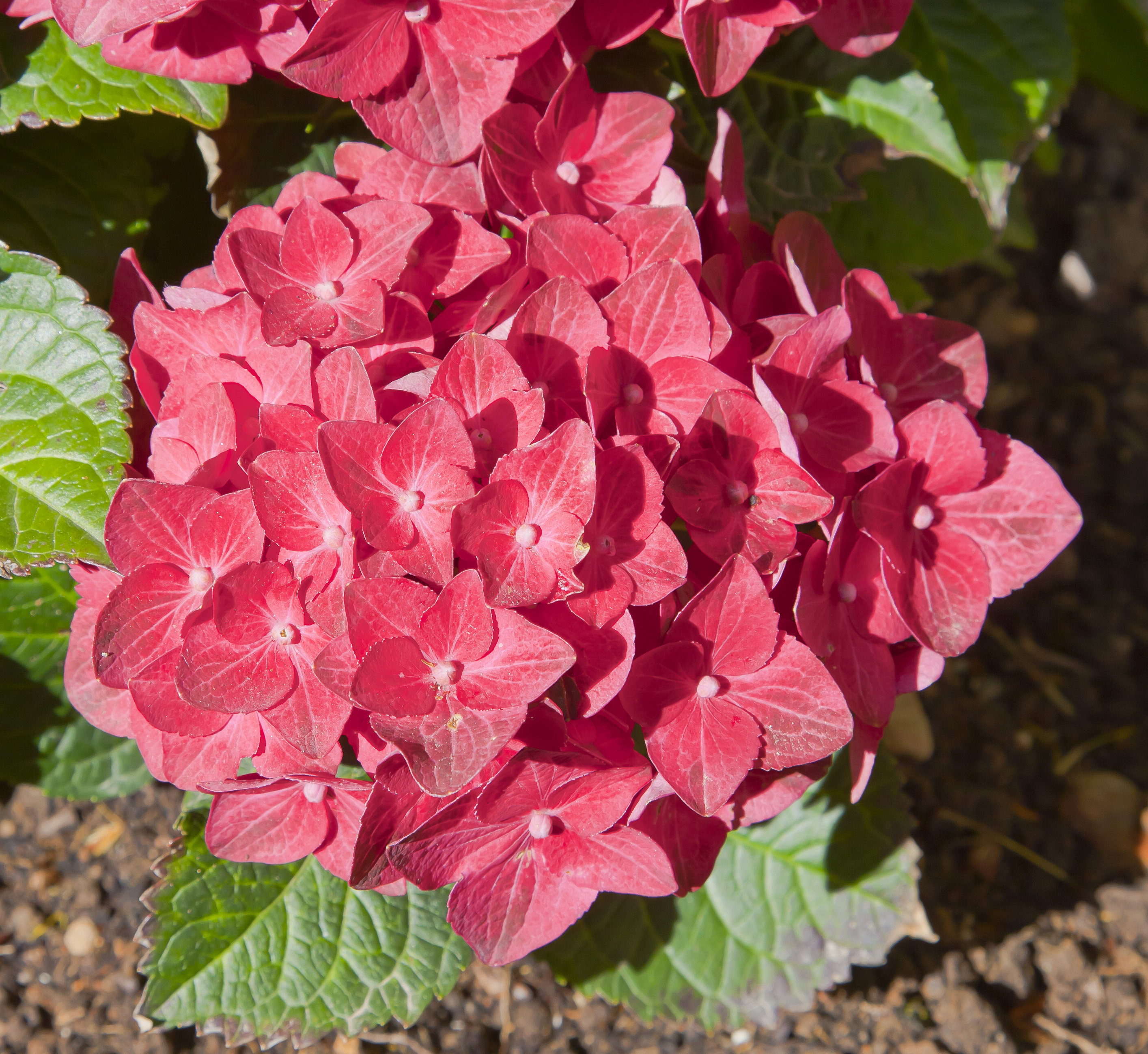 Hortensia (Hydrangea macrophylla), Calatayud, Spain